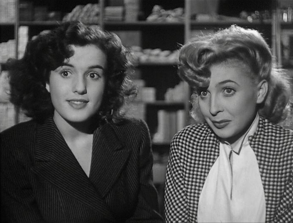 Screenshot from Totò al Giro d'Italia (1948)